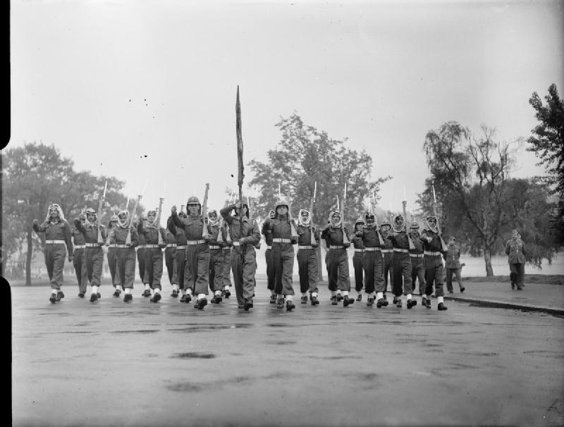 Victory Marchers Camp in London- Accommodation in Kensington Gardens, London, England, UK, 1946 Men of the Arab Legion take part in a rehearsal in Hyde Park, London, in preparation for the Victory Parade. All have rifles. The flag bearer at the front of the formation is flanked by two more soldiers carrying rifles. They are marching towards the camera.